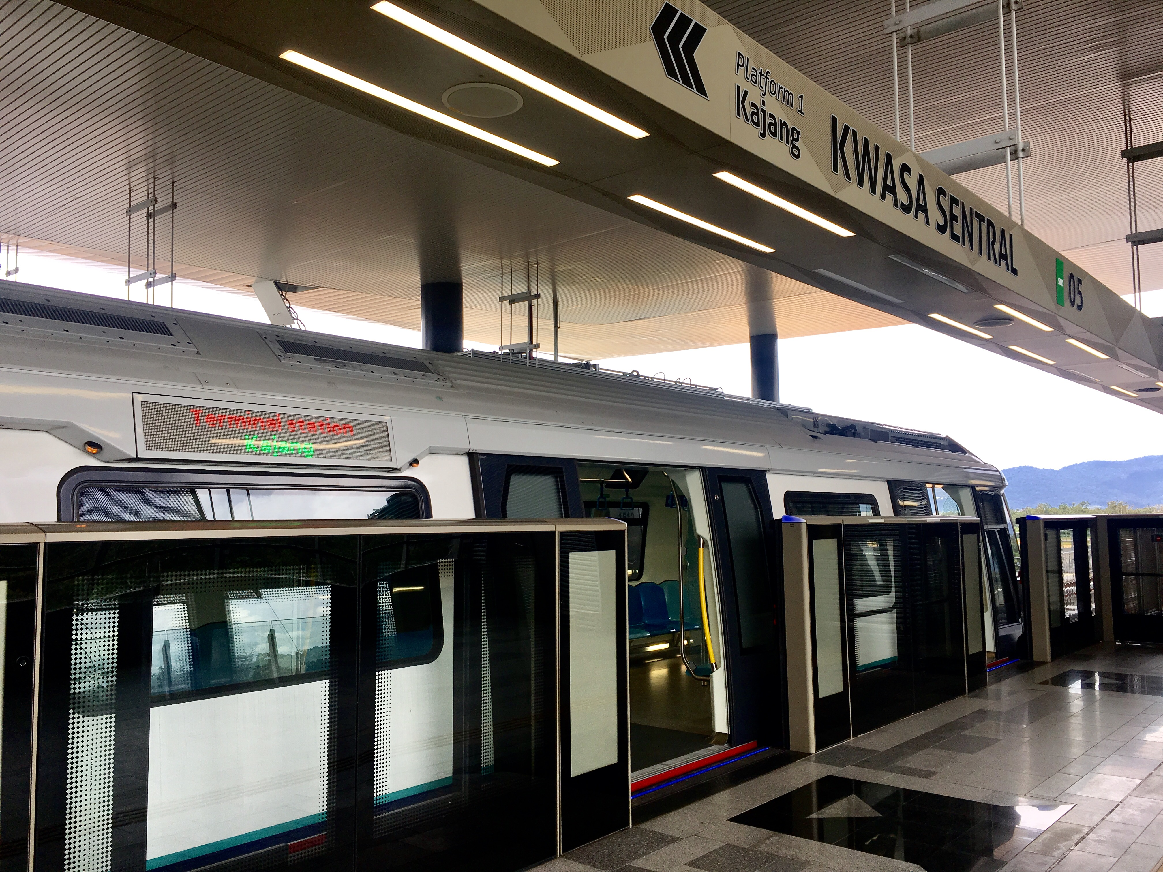 Station platform view